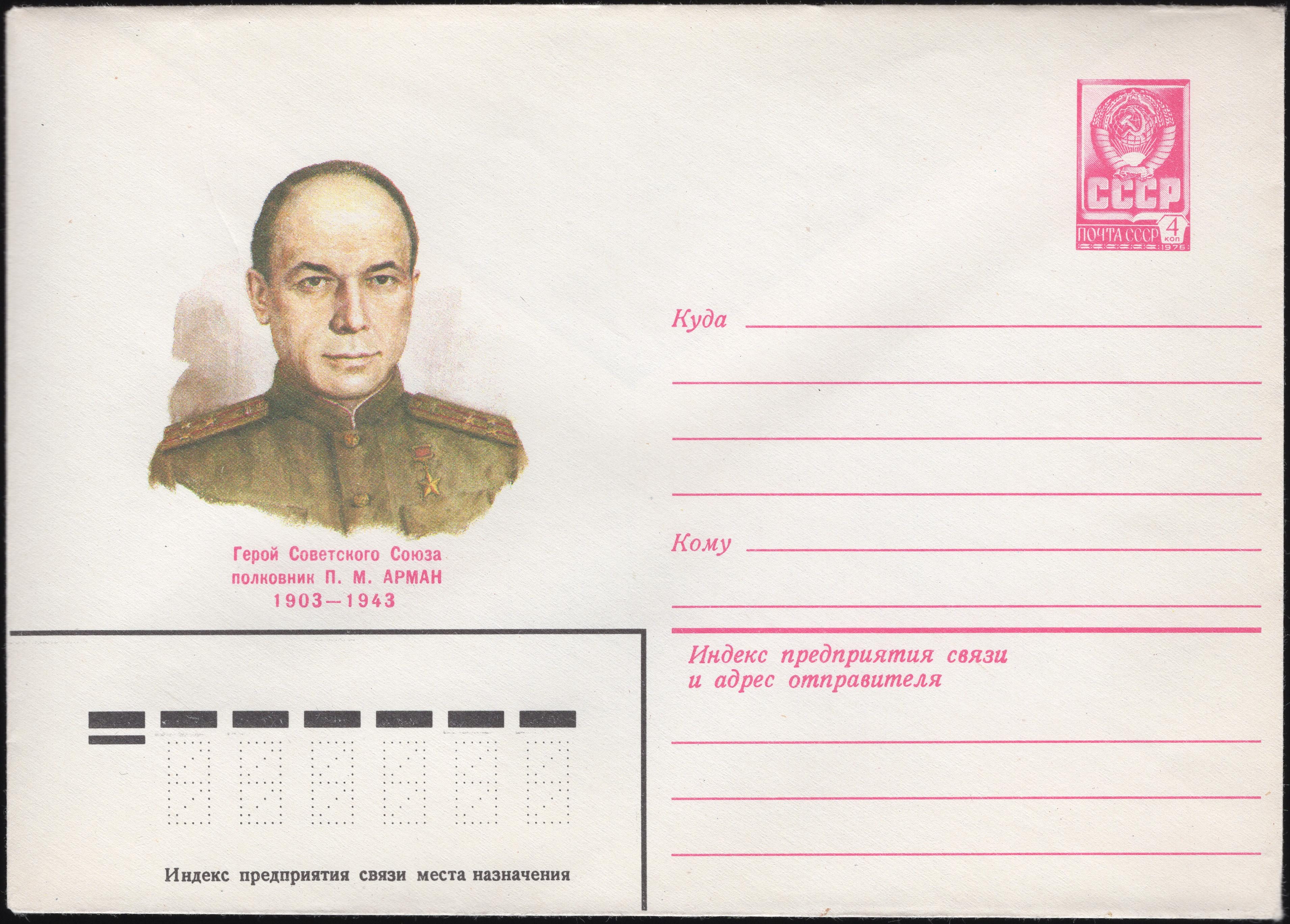 Hero of the Soviet Union Colonel Pohl Arman. 1903-1943. Series: Heroes of the Soviet Union. Artist Kravchuk G.